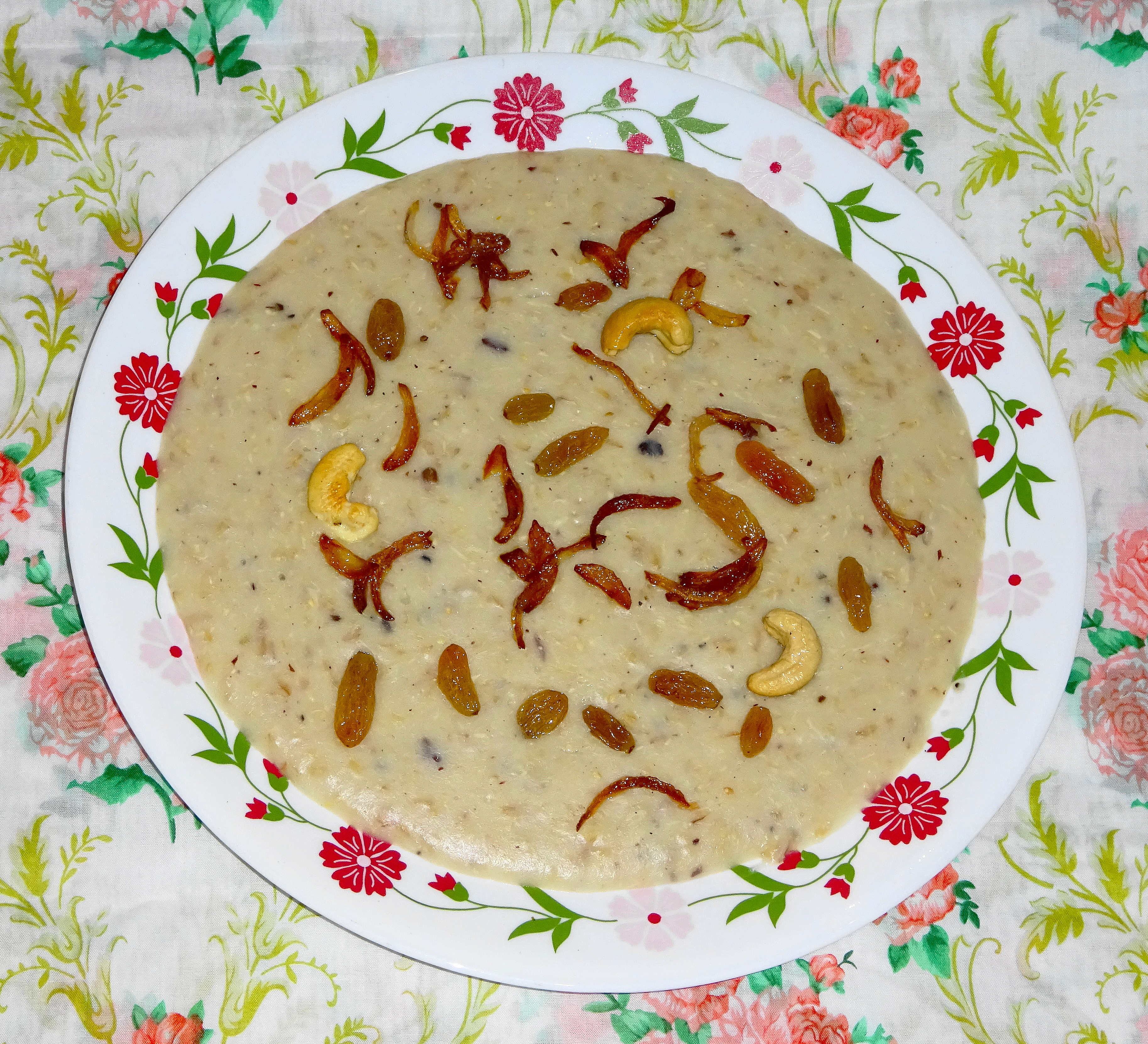 Alisa, Aleesa